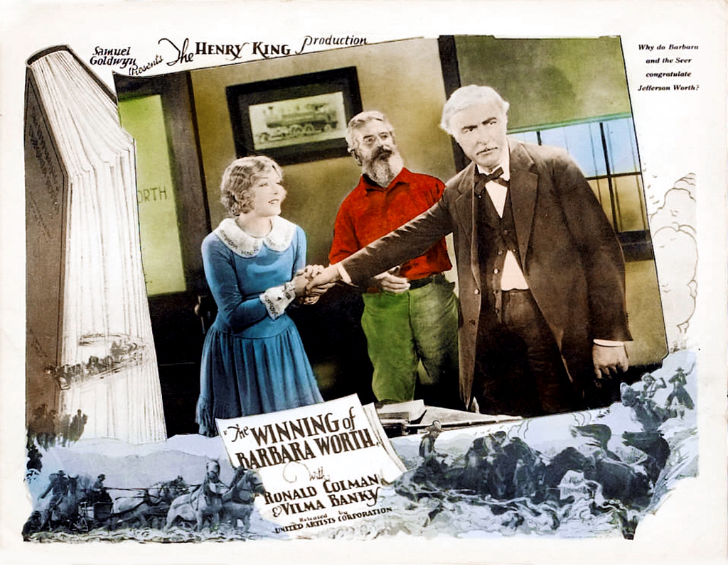 Lobby card for the American western film The Winning of Barbara Worth (1926) directed by Henry King.